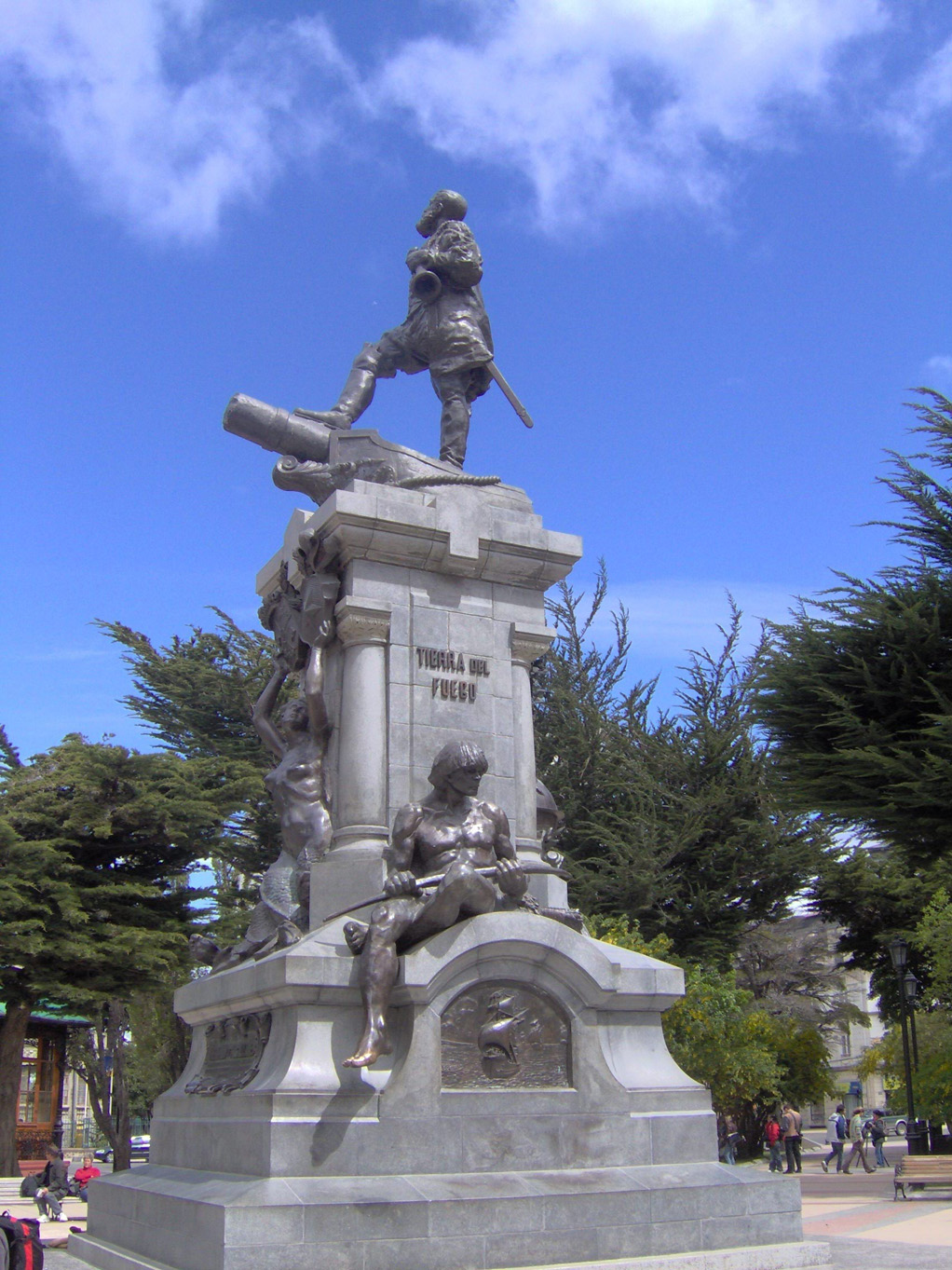 Monument to Ferdinand Magellan in Punta Arenas, Chile. Sculptor Guillermo Córdova, 1920, bronze